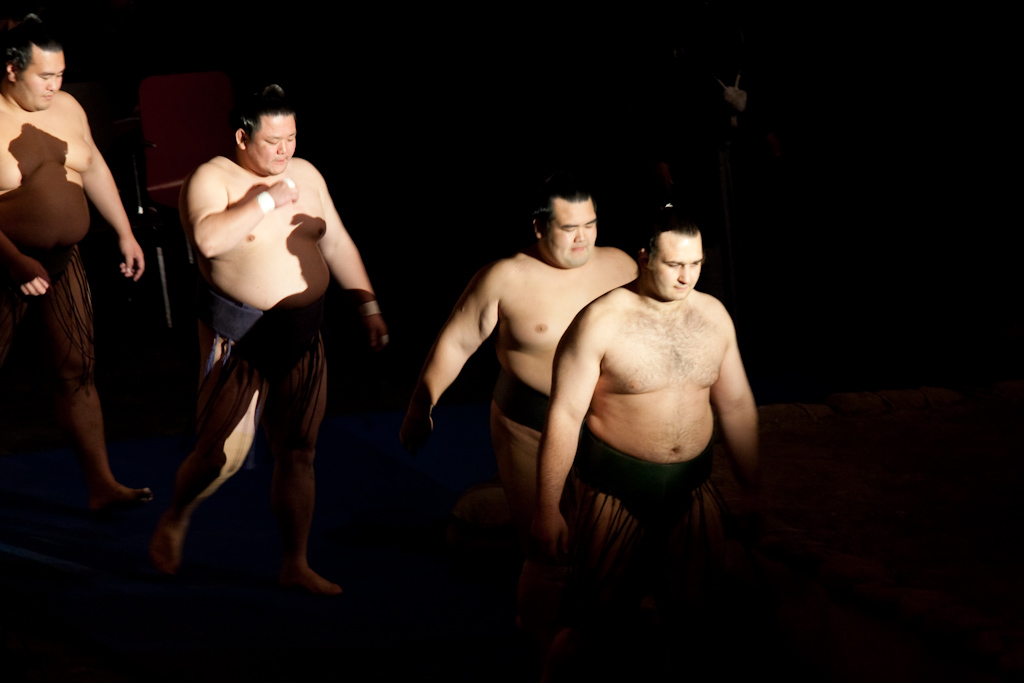 Sumo demonstration at the Heineken Music Hall to celebrate 400 years of trade relations between Japan and The Netherlands